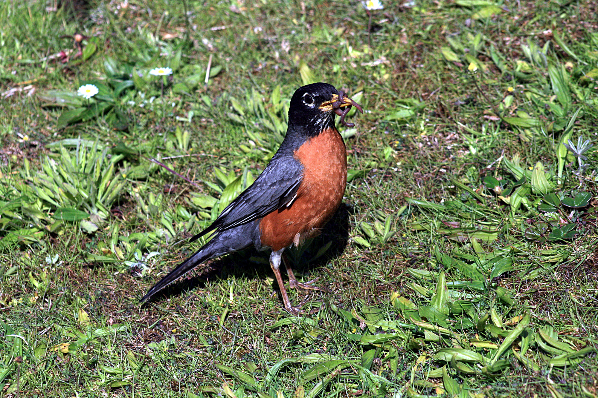 A robin,Turdus migratorius with Worms